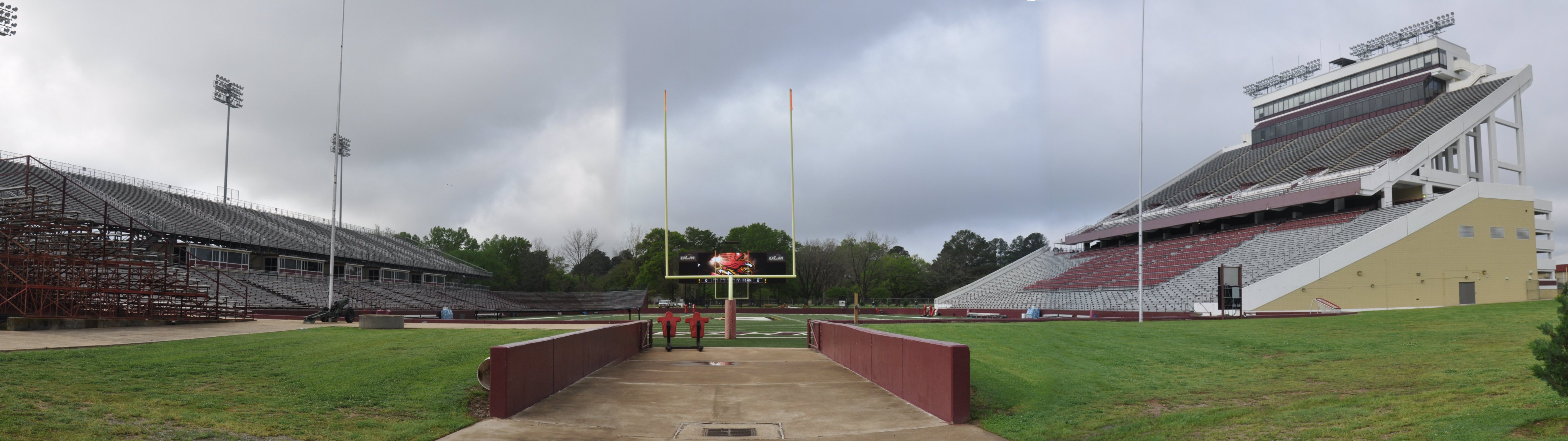 Panoramic view of Malone Stadium on the campus of the University of Louisiana at Monroe.